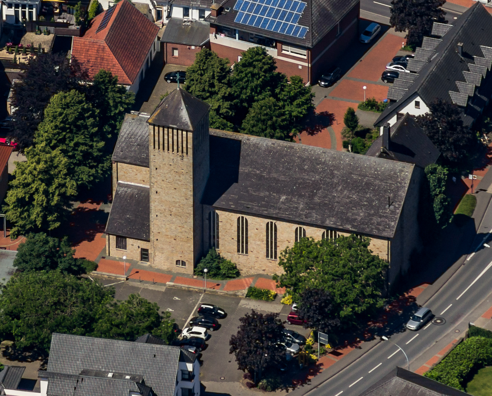 St. Dionysius Church, Recke, North Rhine-Westphalia, Germany